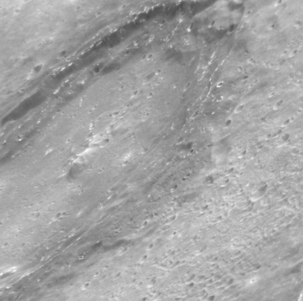 Oblique view of Poe crater on Mercury. MESSENGER Narrow Angle Camera image. North is in lower left. Emission Angle: 68.0 Incidence Angle: 47.4 Latitude: 43.4 Longitude: 158.4 Phase Angle: 88.2